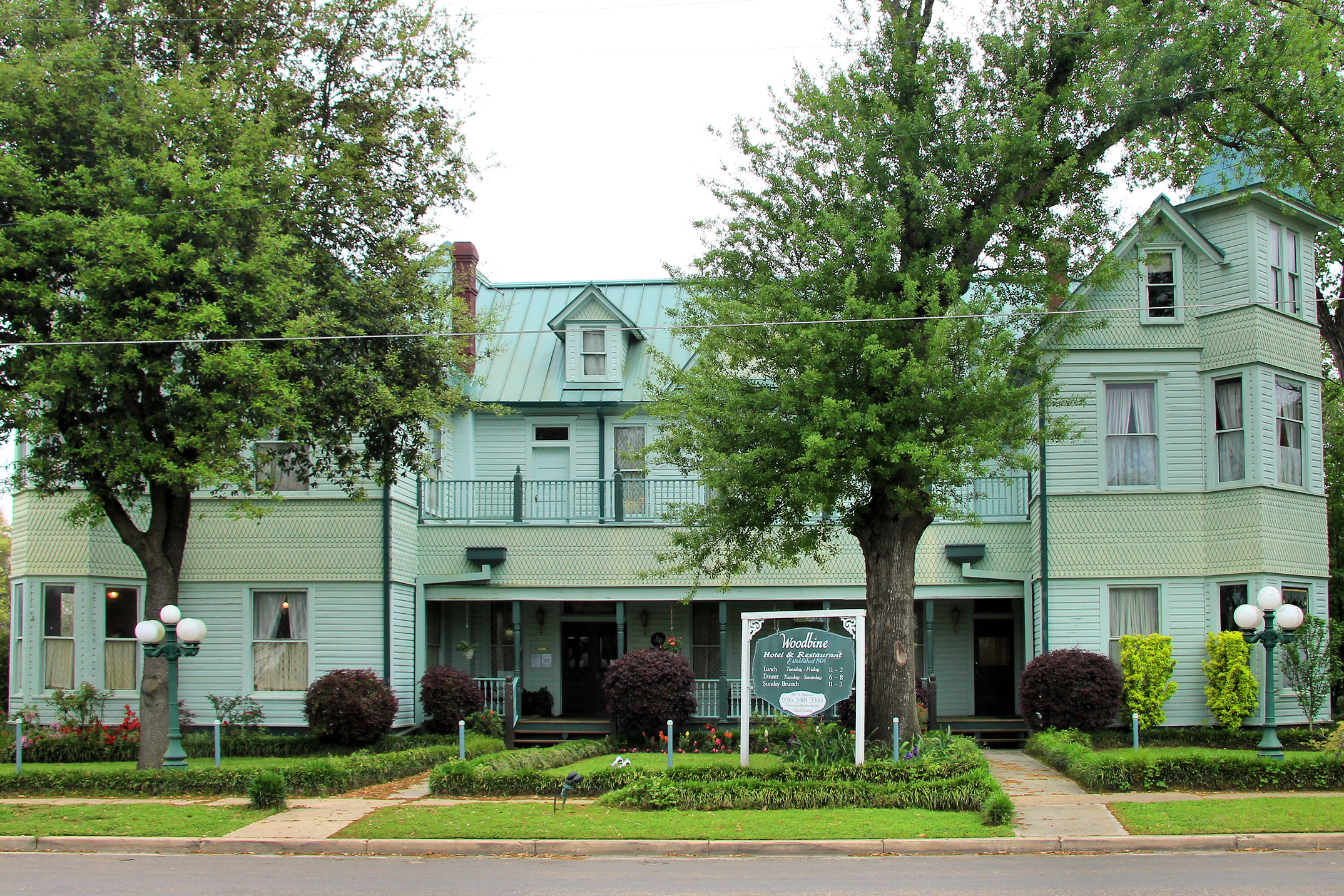 The former Shapira Hotel in Madisonville, Texas, United States. The hotel was designated a Recorded Texas Historic Landmark in 1982. It is now called the Woodbine Hotel and Restaurant.